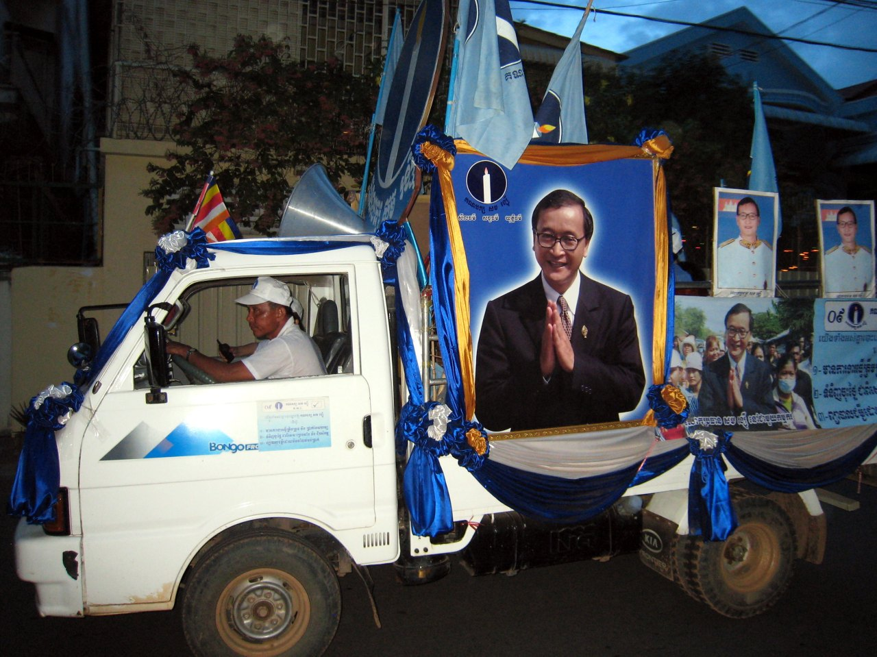 Sam Rainsy Party campaign bus during the Cambodian parliamentary election, 2008.